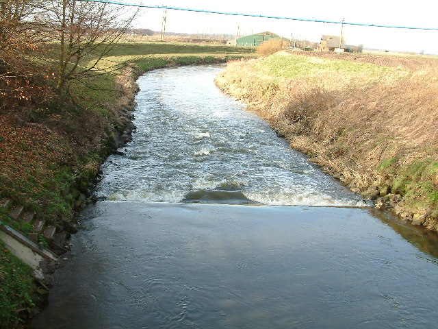 River Douglas. From Wanes Blades Bridge, Looking north.